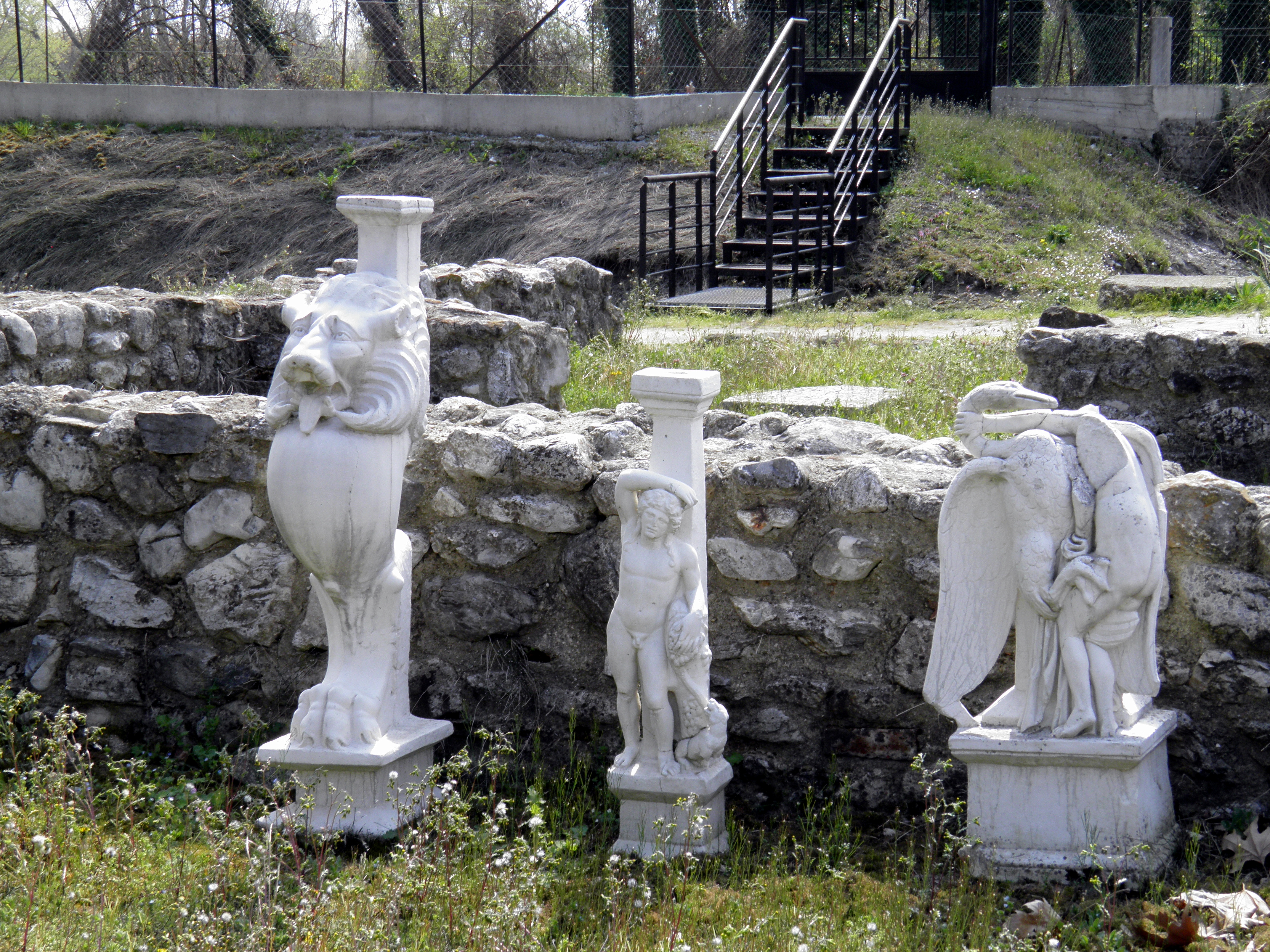 The house of Zosas was but a stone's throw from the south wall of the city and separated by only a narrow cobbled passage from the adjacent «House of Leda», which owes its conventional name to a table support with representation of Leda and the swan sculptured in the round, which adorned the formal hall of the residence. Set on the south of the hall were two other table supports, one with a representation of Dionysos in relaxed pose, and the other with a hybrid figure, with head and foot of a lion. Two sculptured busts of children, with the distinctive hairstyle of devotees of the goddess Isis, were also found in the same room.